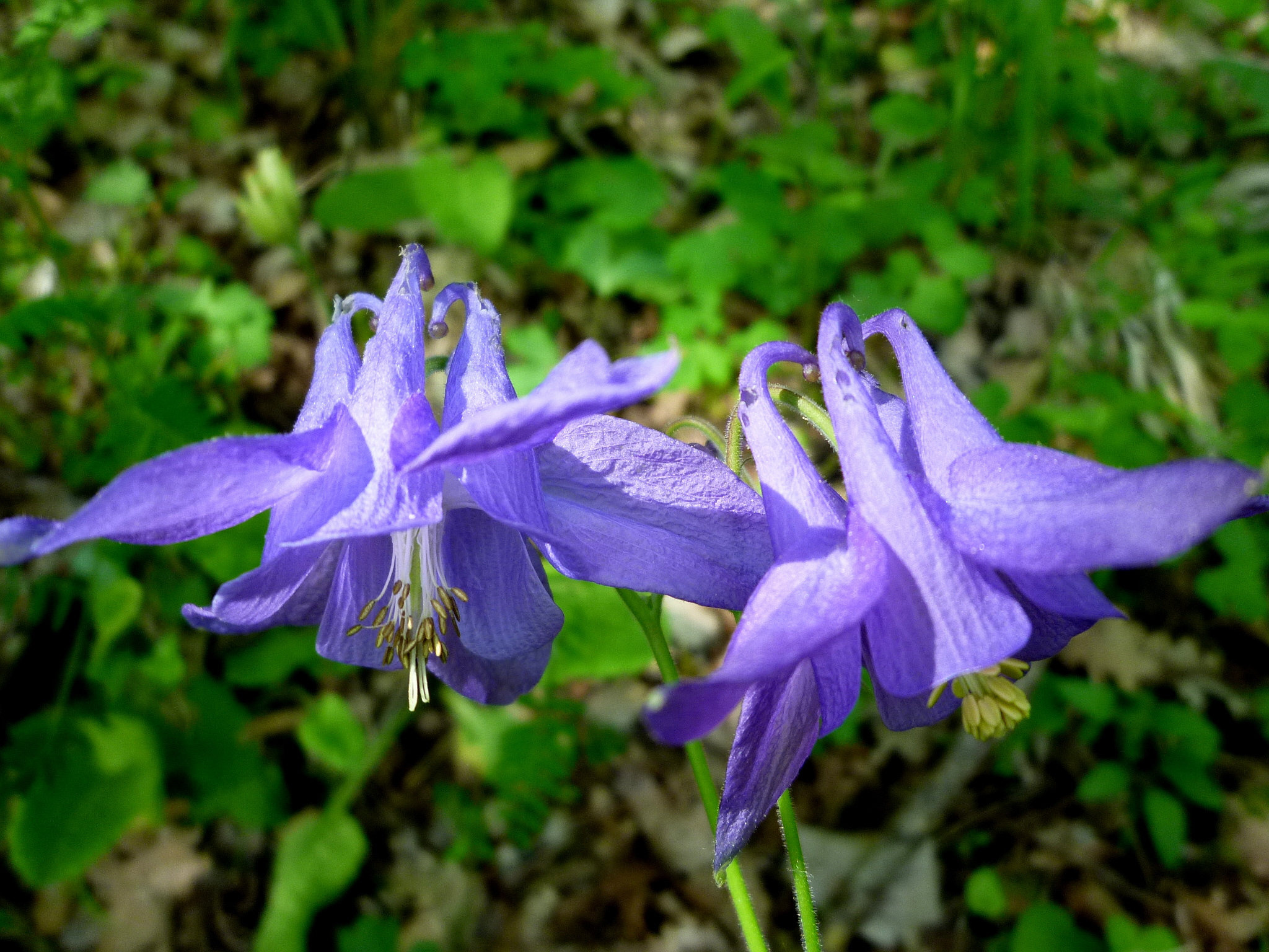 Aquilegia vulgaris. In Guixers (Solsonès - Catalunya). To 900 m. altitude